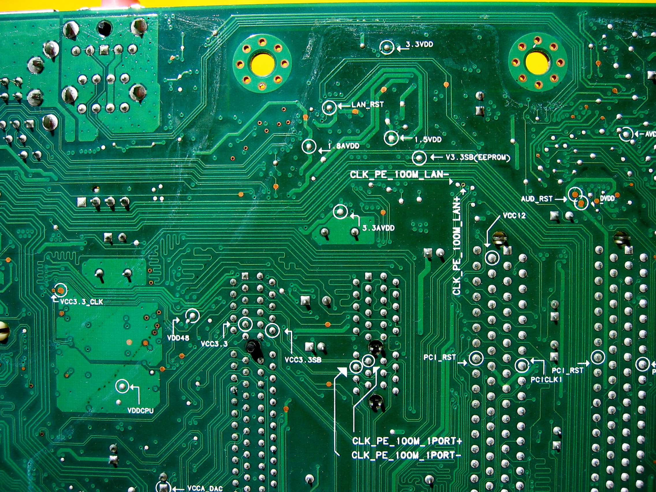 Testpads Lenovo Micro-ATX P4 Mainboard